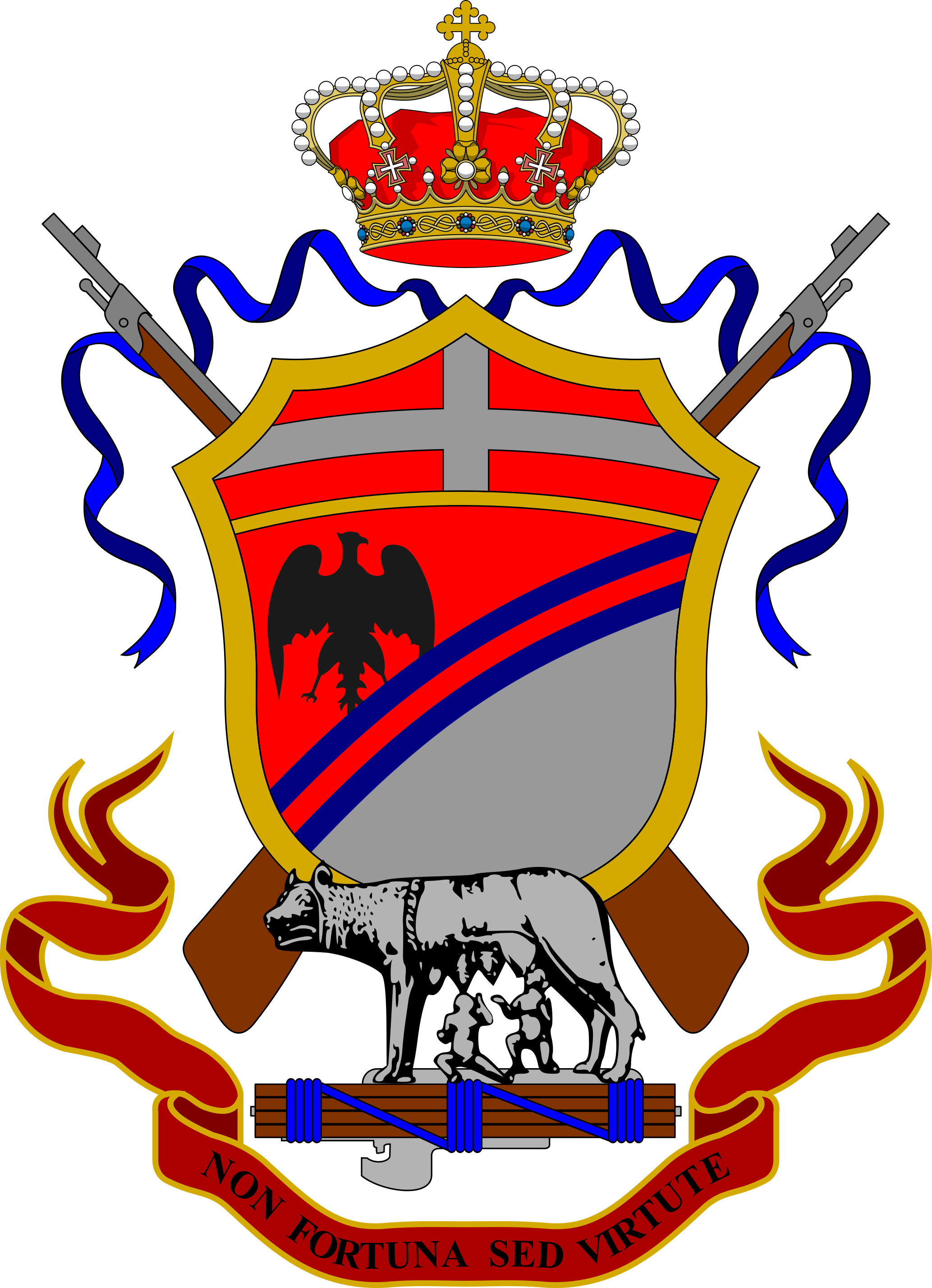 Coat of Arms of the 79th Infantry Regiment "Roma", Royal Italian Army, 1939 - Royal Crown by user User: F l a n k e r, released to public domain (see File:Crown of Savoy.svg)